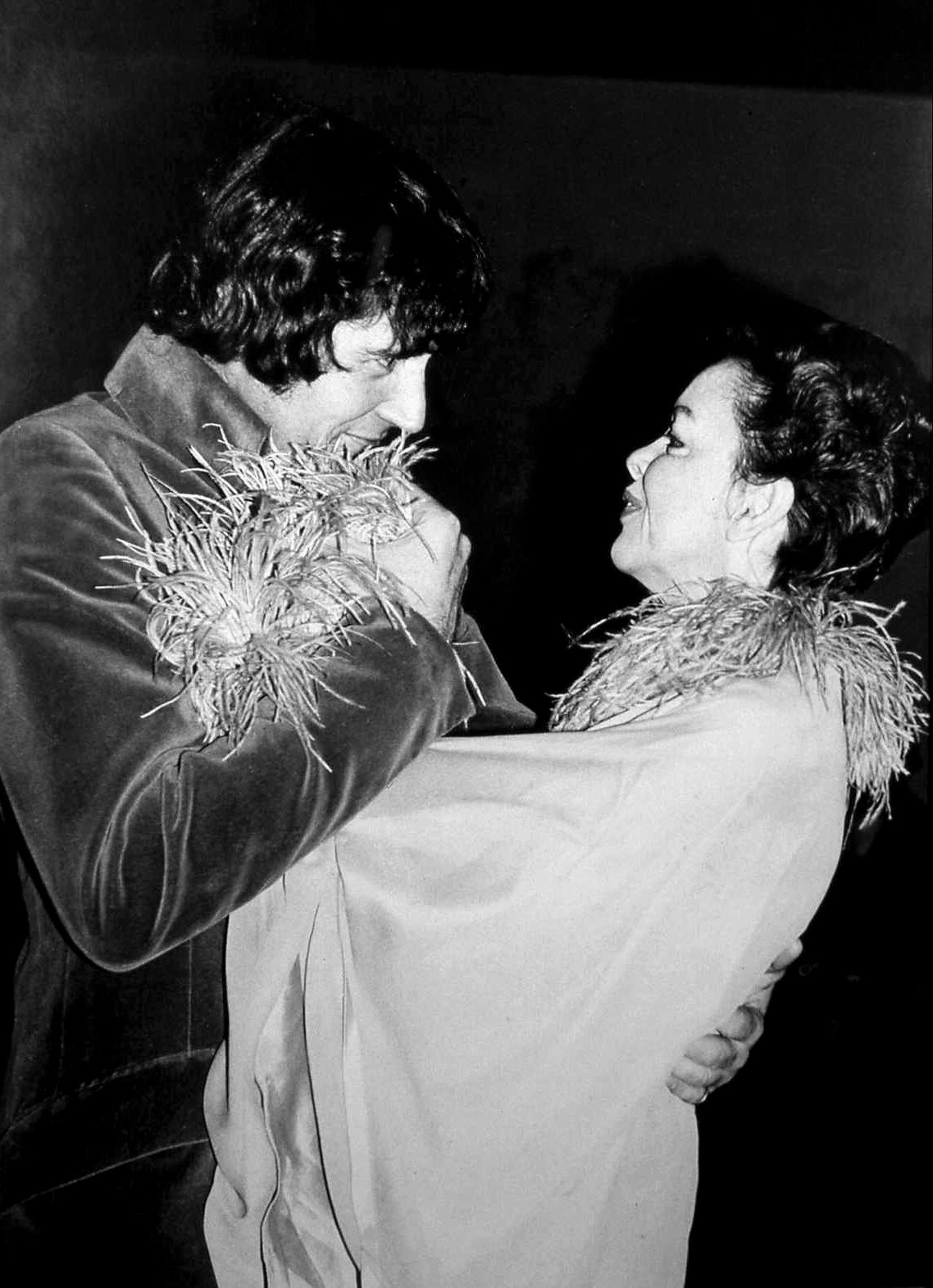 Wedding photograph of Judy Garland and Mickey Deans